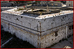 Jumper's Bastion refers to one of two adjacent bastions in the British Overseas Territory of Gibraltar.